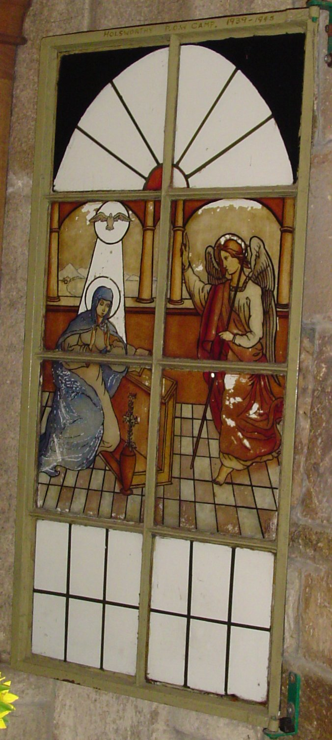 Holsworthy POW Church Window #1